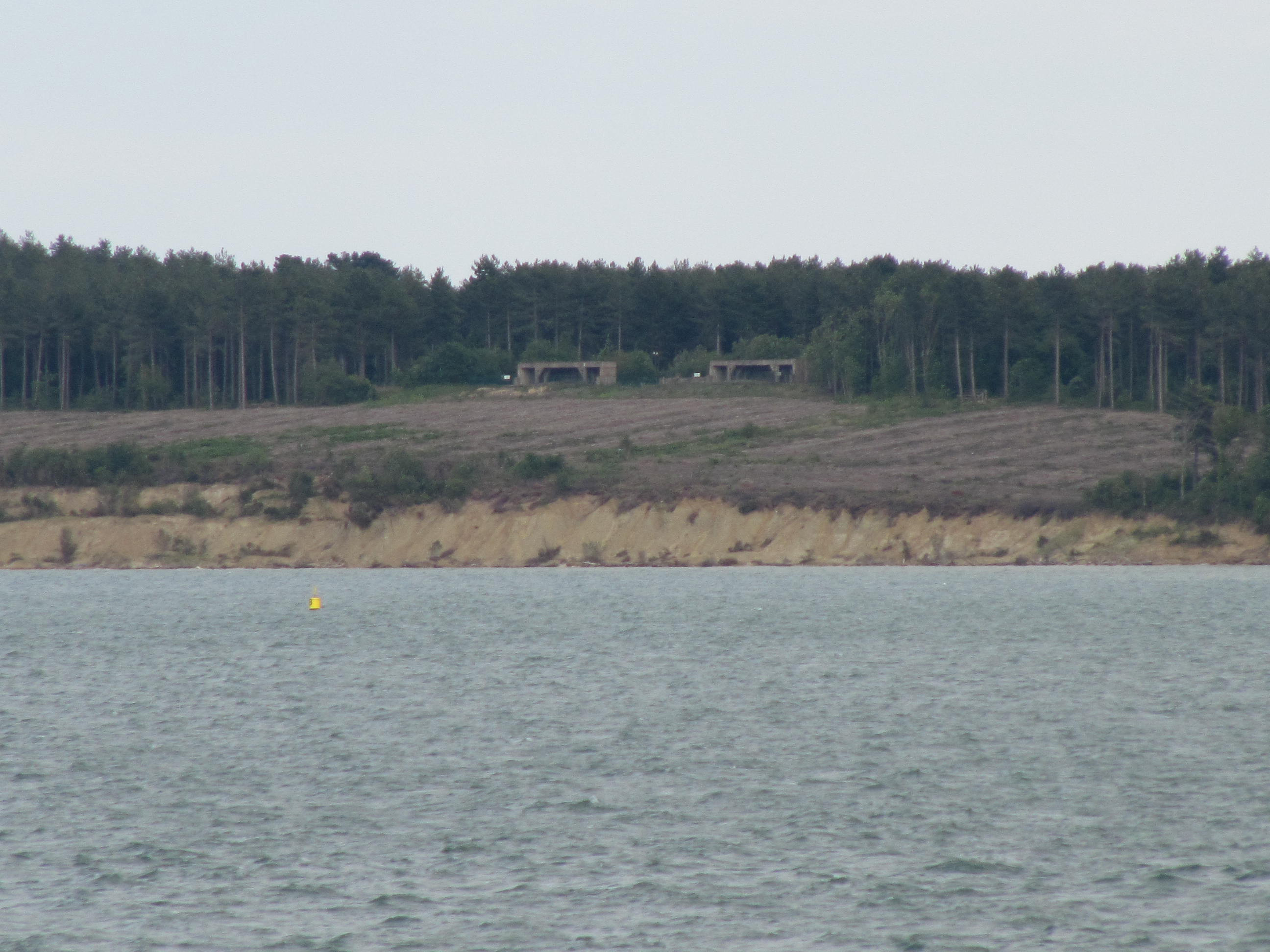 Bouldnor Battery, in Bouldnor Copse, overlooking the Solent